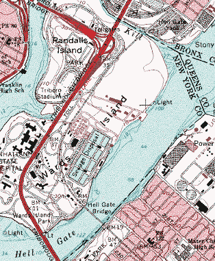 Hell Gate, New York City shown on USGS topographic map.